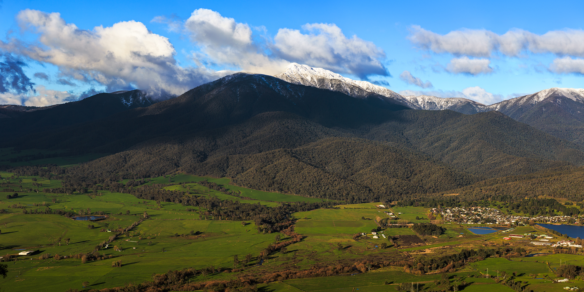 Mount Bogong, Victoria's tallest peak and part of the Great Dividing Range, is situated in the Alpine National Park. The town of Mount Beauty is visible in the lower right corner.